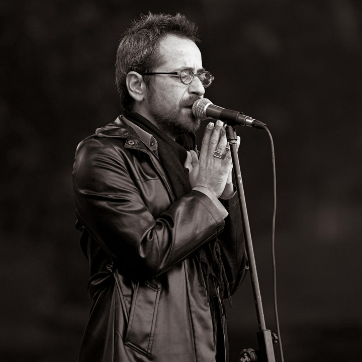 Feridun Duzagac van için rock